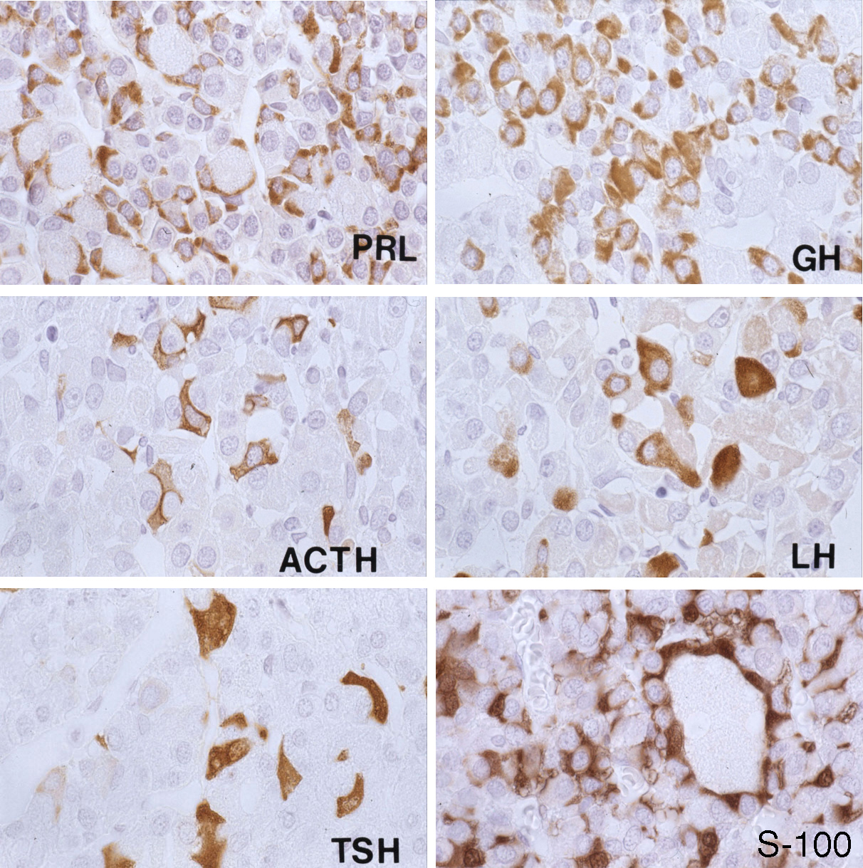 Immunohistochemistry of pituitary hormones and S-100 protein in sections of rat anterior pituitary. Light microscopy.